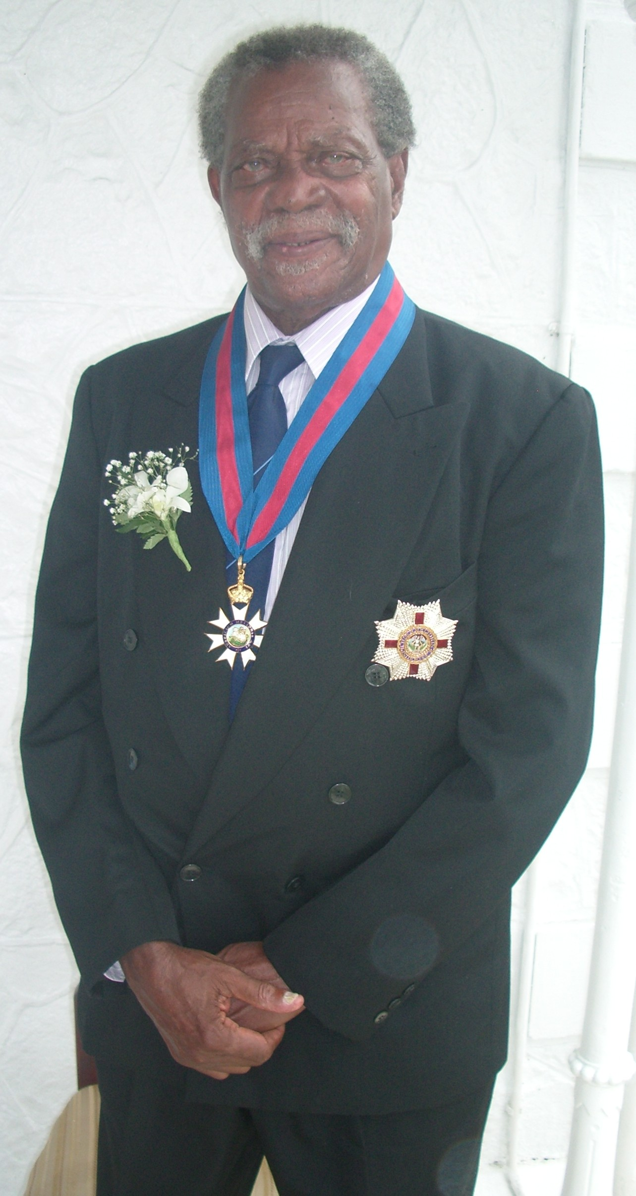 Sir Dunstan St Omer